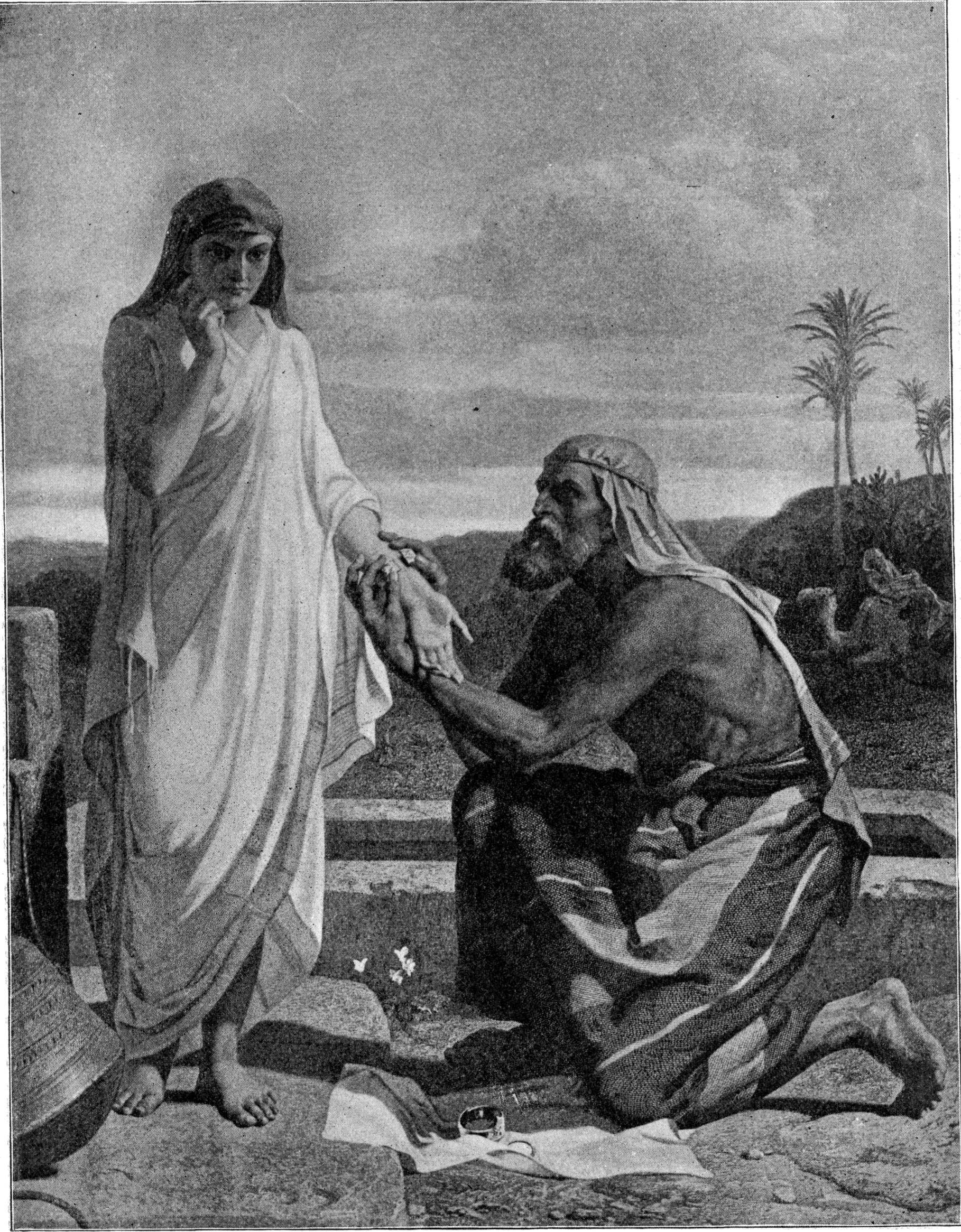 ABRAHAM'S SERVANT GIVING JEWELS TO REBEKAH.—Genesis xxiv. 22.